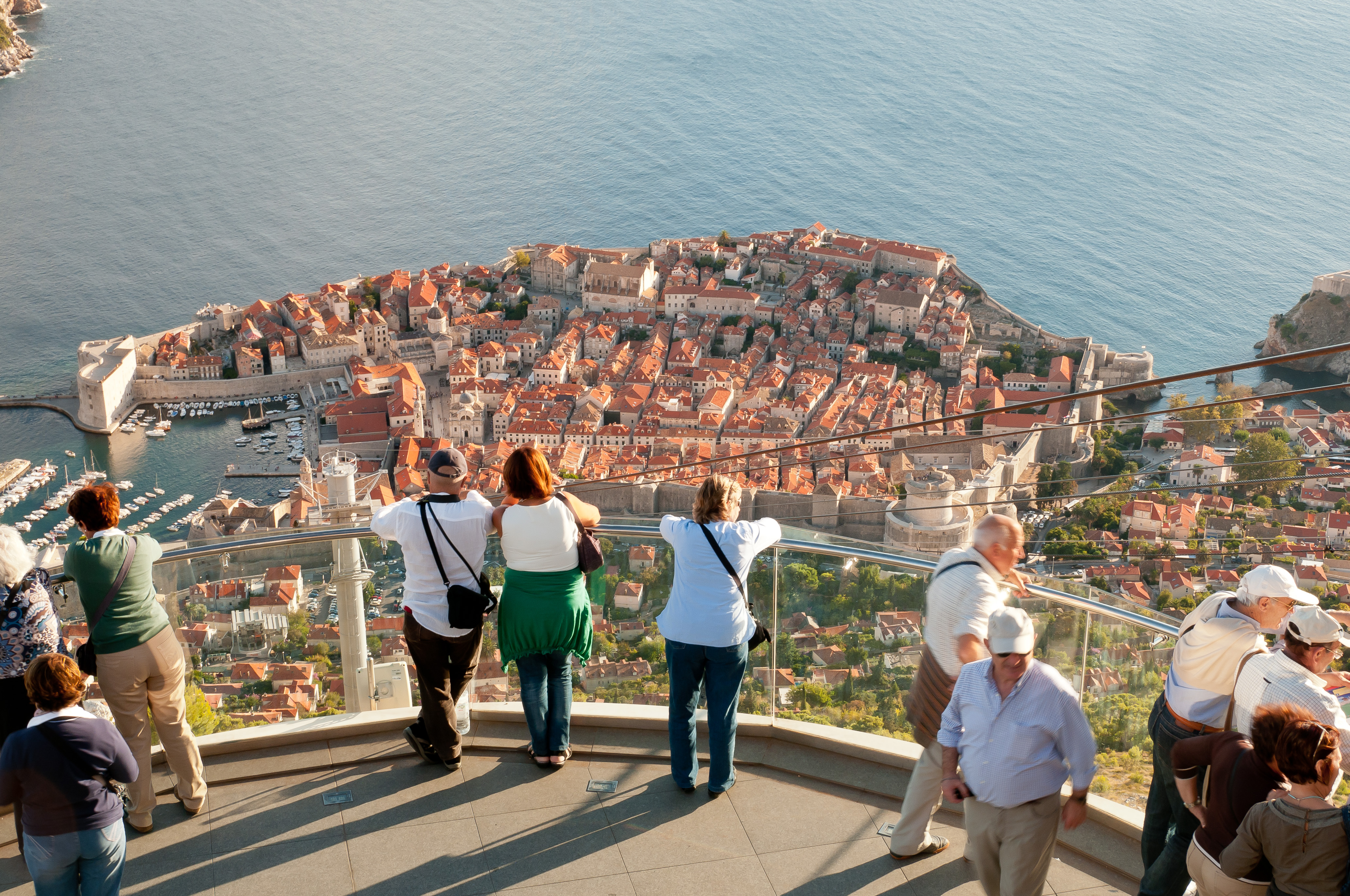 The Old City as seen from the Cable Car viewing area.